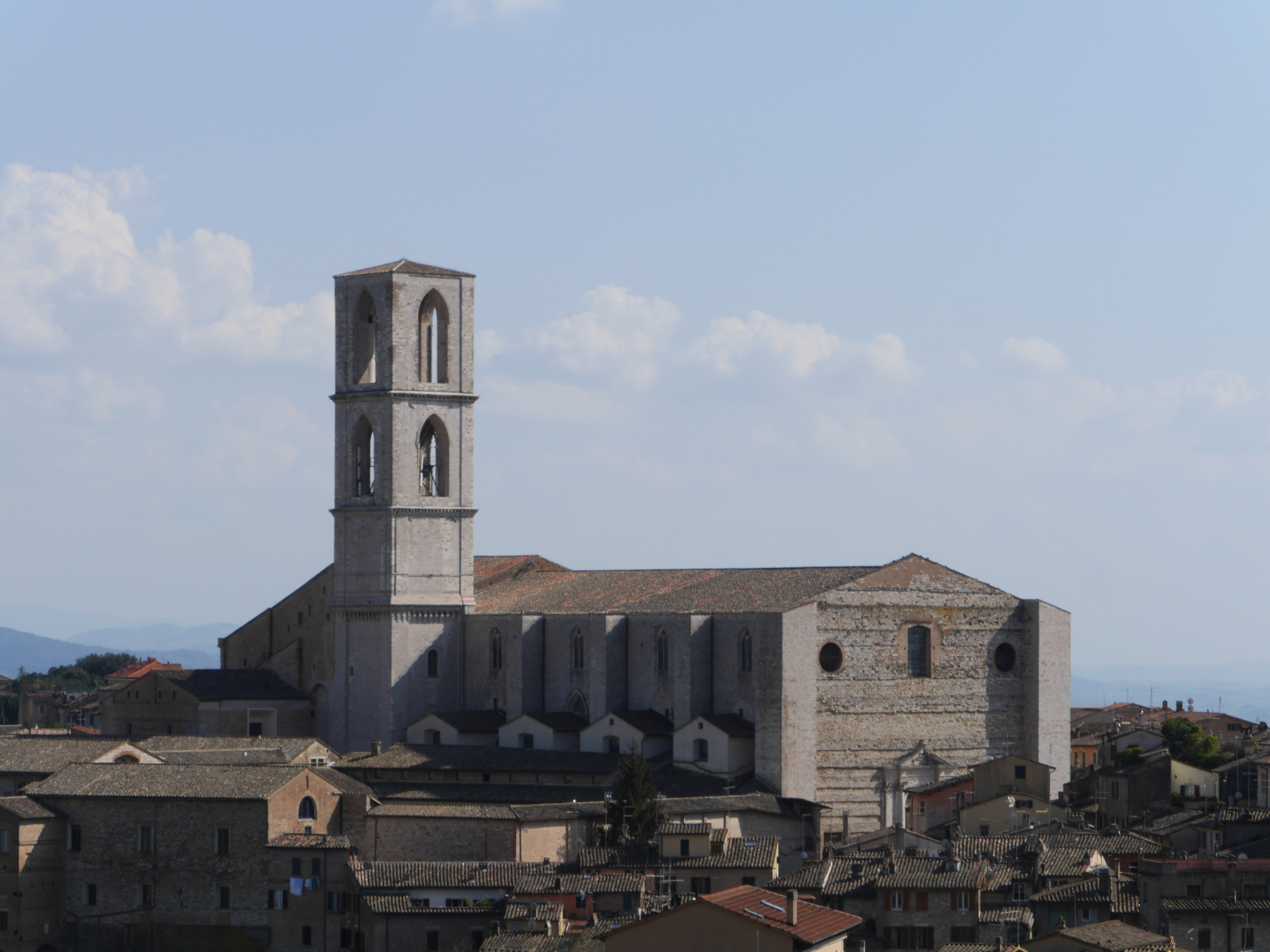 This photo was taken with Panasonic Lumix DMC-GH3 camera, thanks to Panasonic Italia. You can see all photographs in category: Taken with Panasonic Lumix DMC-GH3.